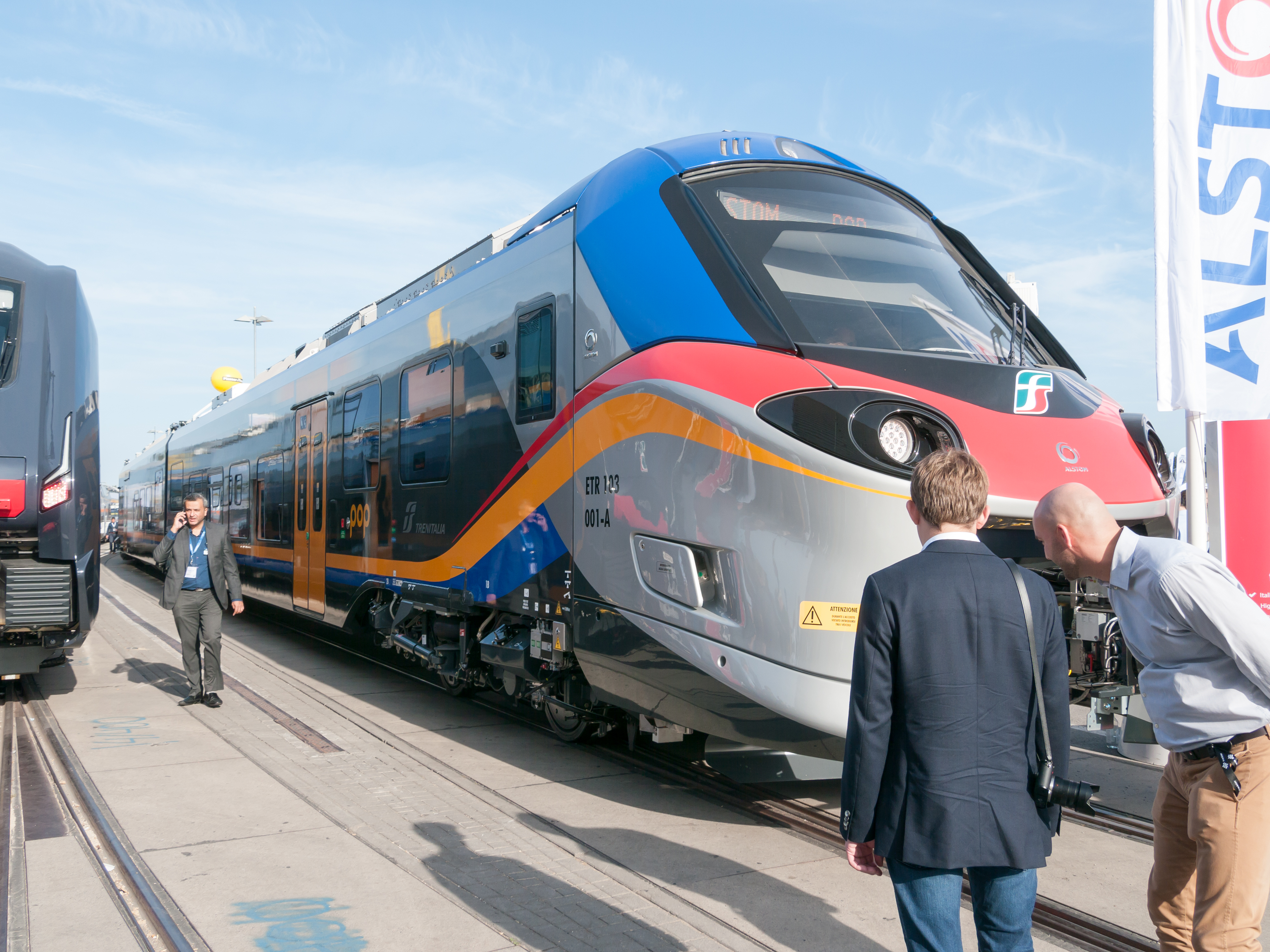 Alstom Coradia Strema ("Pop") for Trenitalia at Innotrans 2018 fair in Berlin, Germany